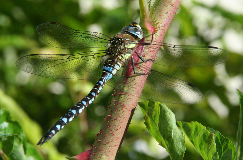 Dragonfly Aeshna sp.